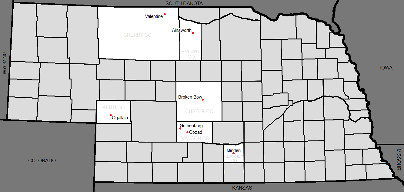 Map showing the members of the Southwest Conference for Nebraska.